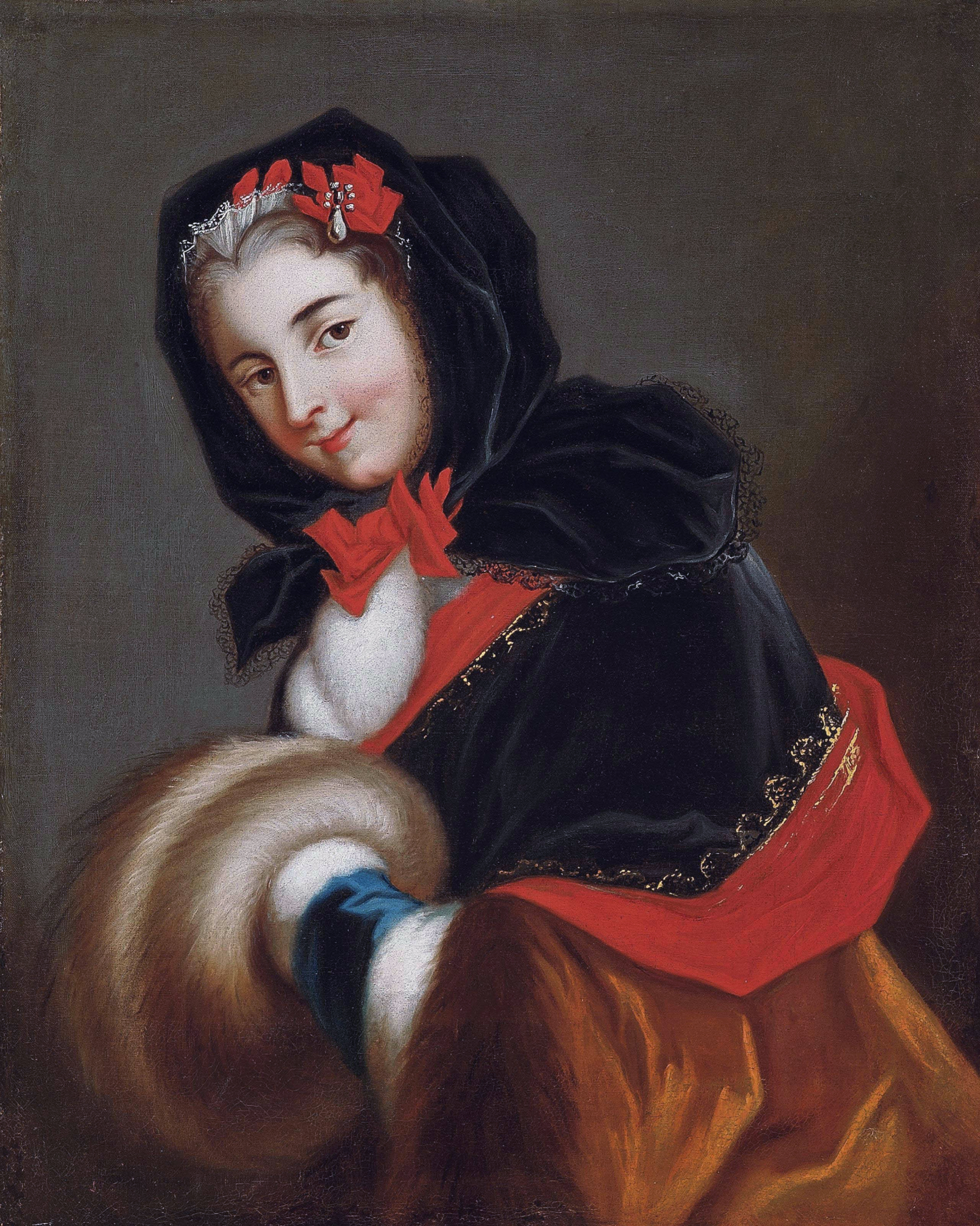 Portrait of Louise Henriette de Bourbon (1726-1759), Duchesse of Chartres and Orléans